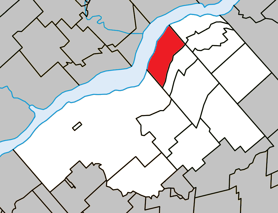 Location of Saint-Pierre-les-Becquets, Quebec within Bécancour Regional County Municipality.